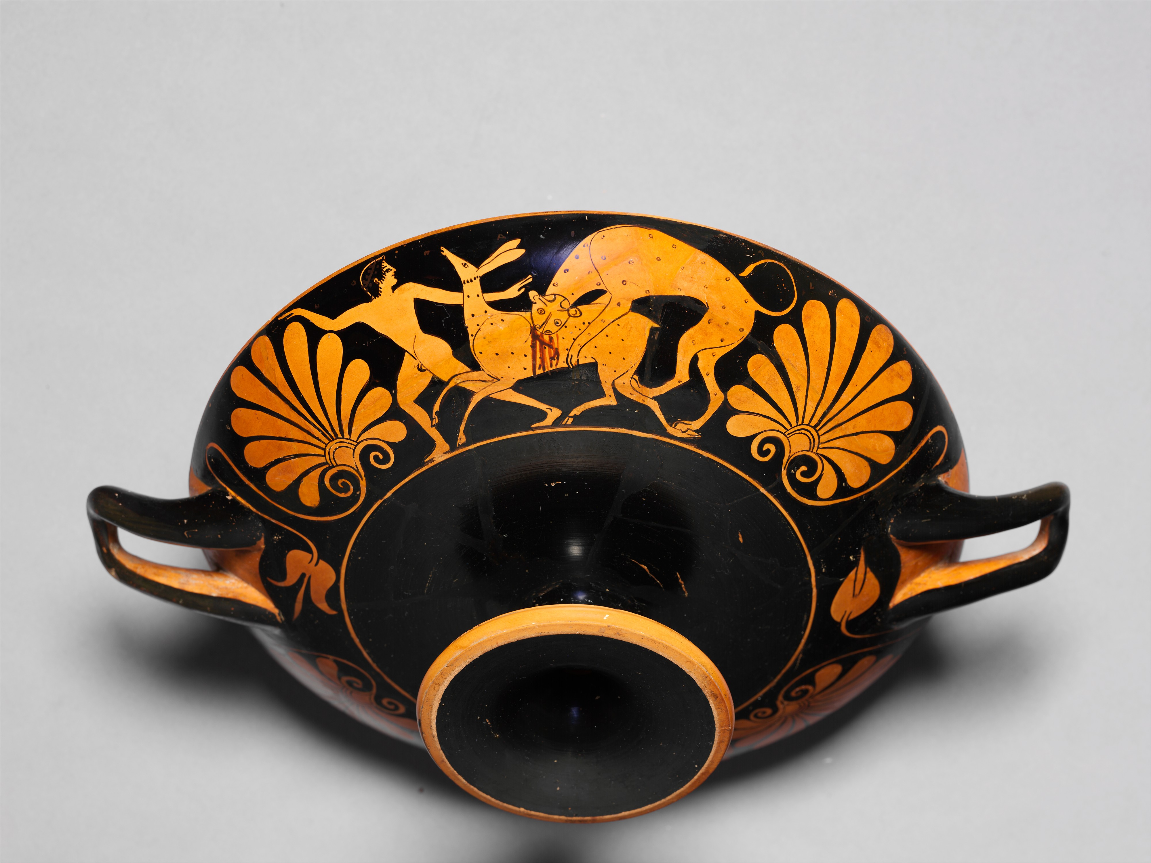 Greek, Attic; Kylix; Vases